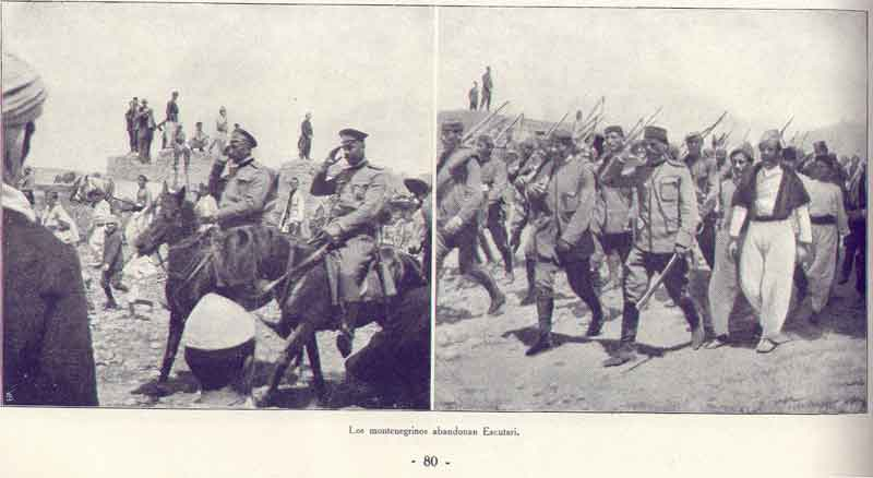 Montenegrin retreat from Scutari.